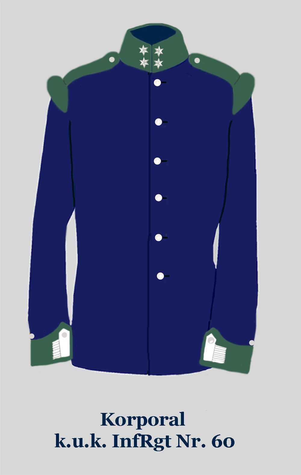 Corporal of the k.u.k. hungarian 60th Infantry Regiment (Collar steel-green, buttons white)